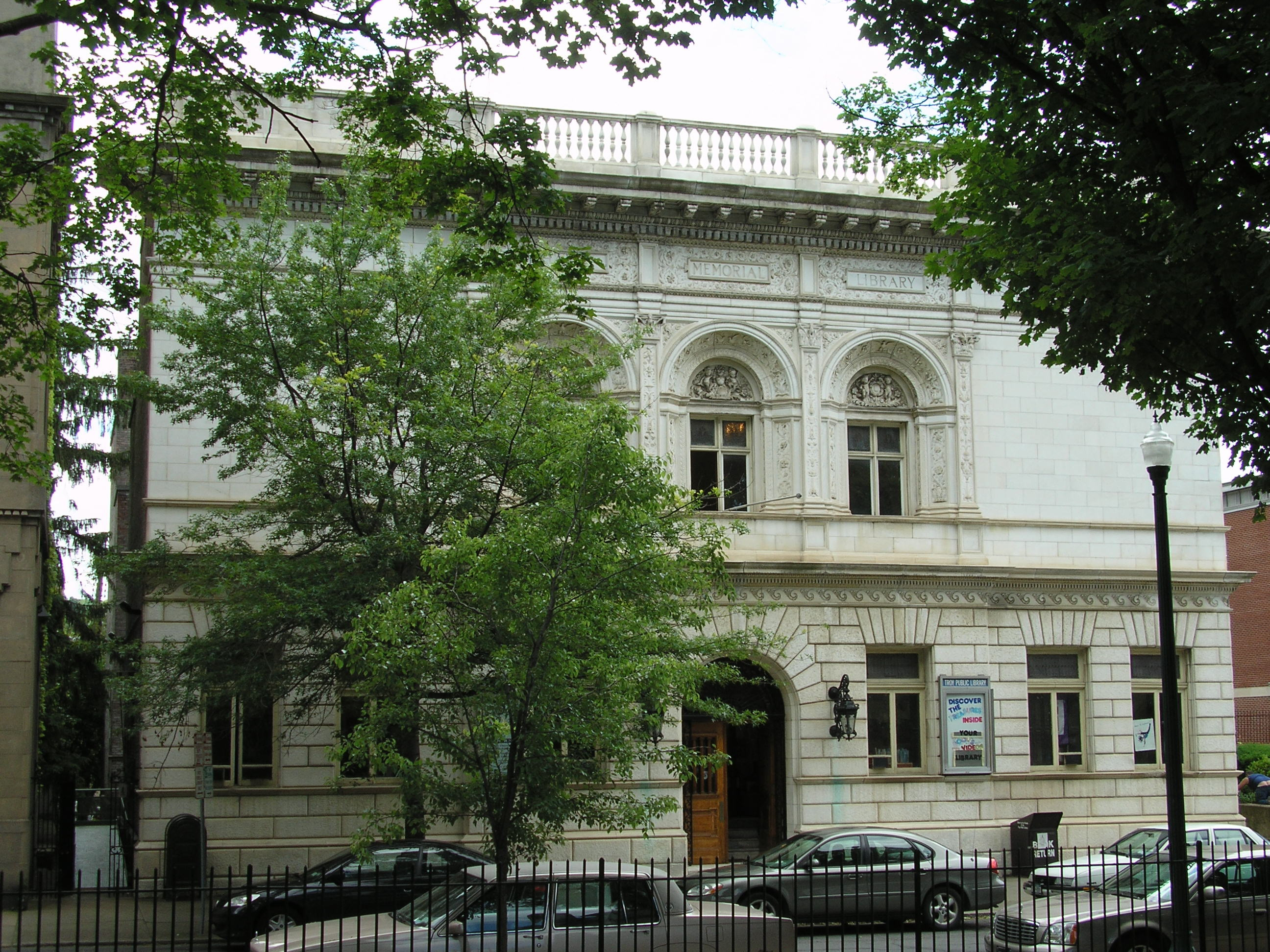 Picture taken outside of the Troy Public Library by myself.